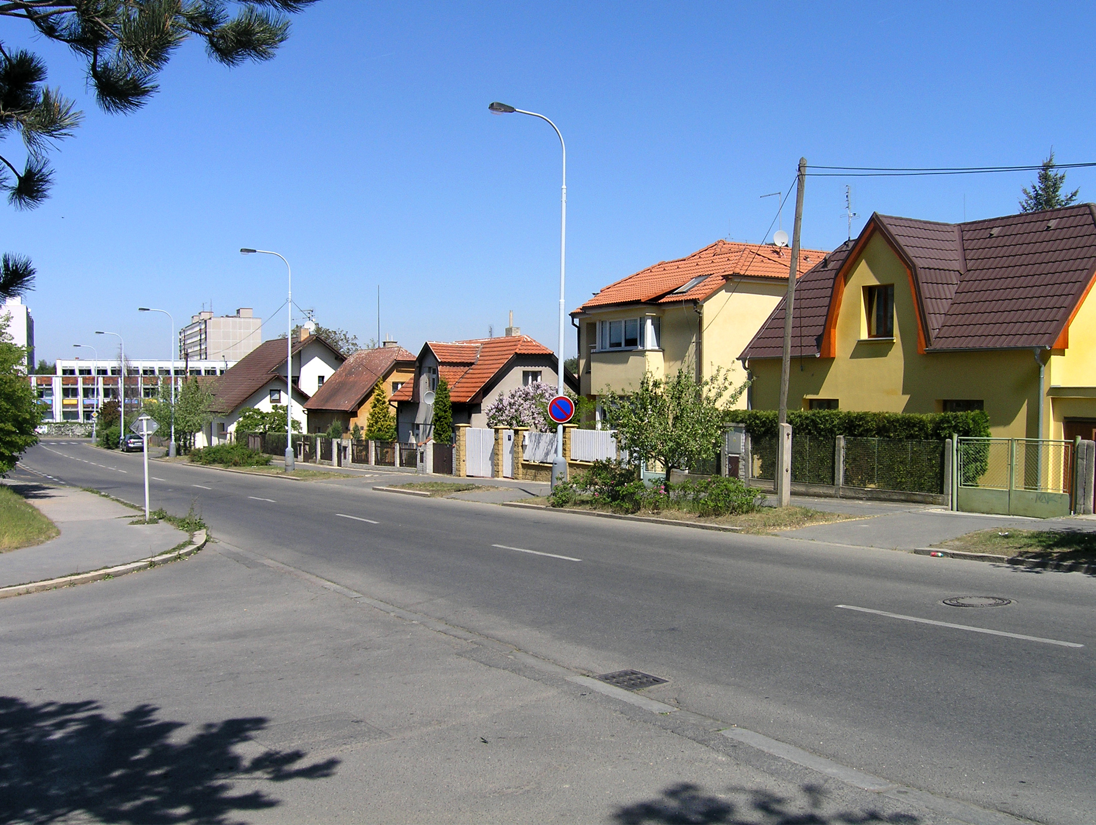 Old houses at Háje, Prague